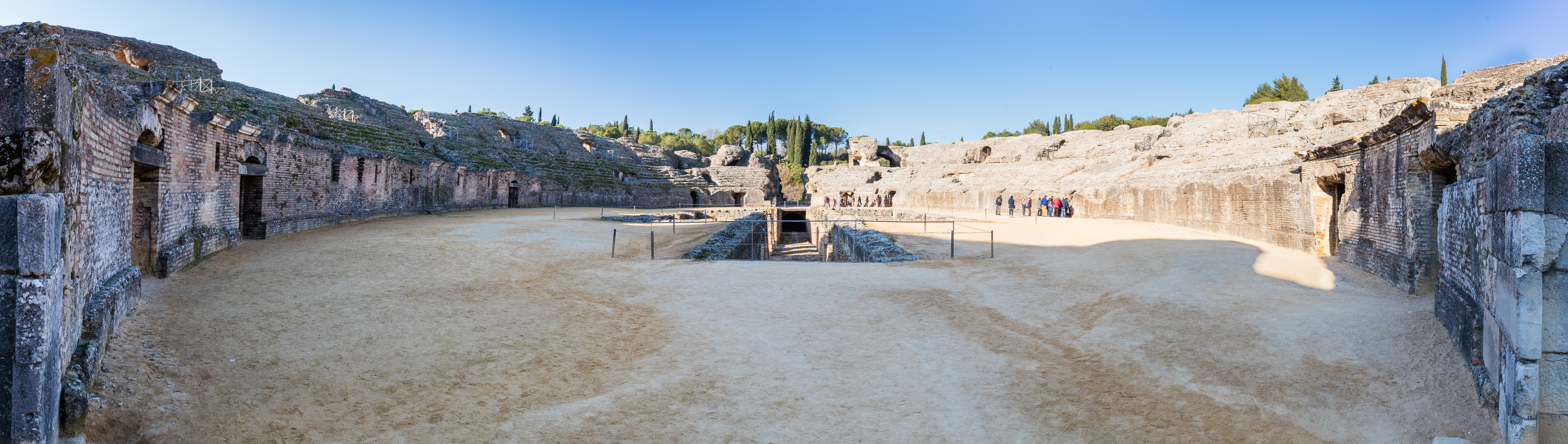 Amphitheater of the ancient roman city of Itálica, Santiponce, Seville, Spain